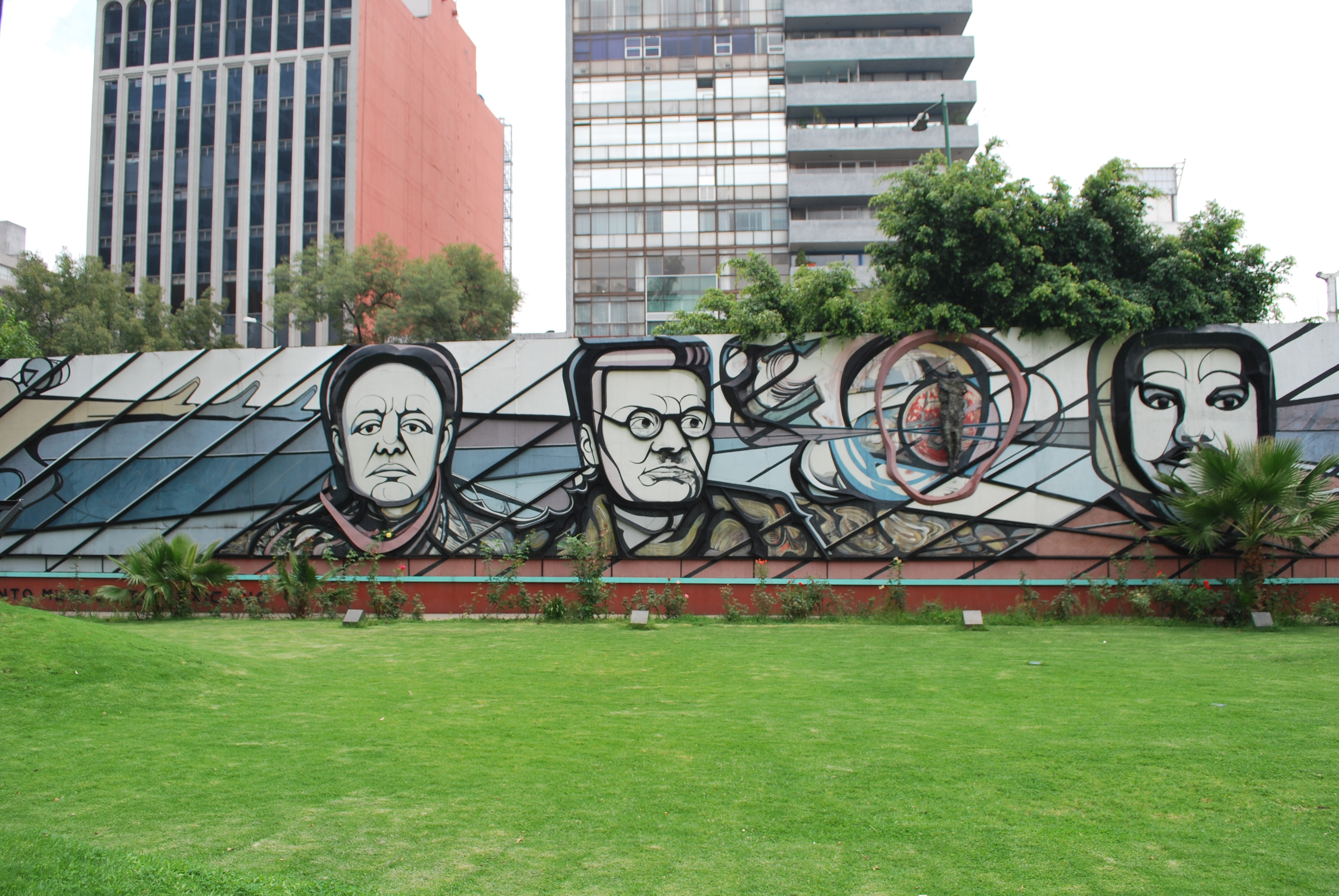 View outer wall of the Polyforum Cultural Siqueiros in Mexico City